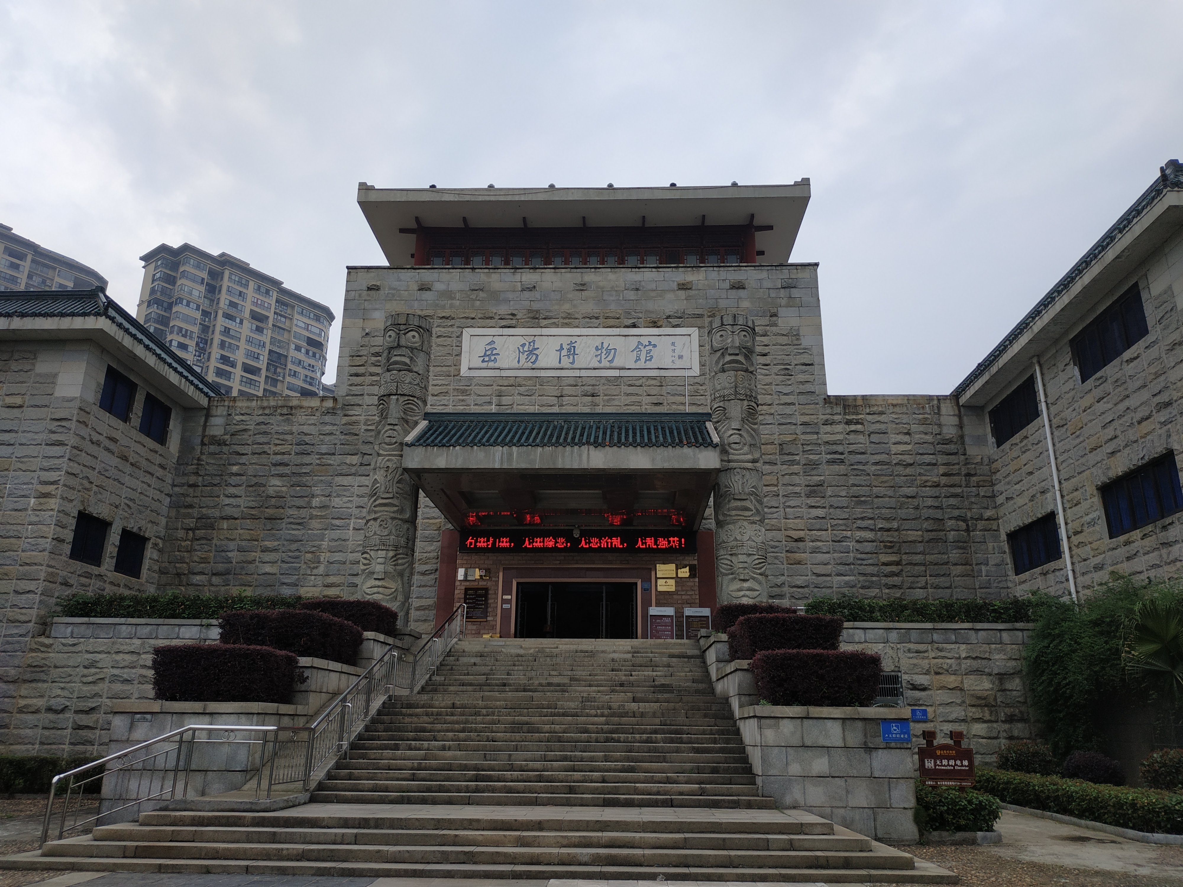 Frontal view of Yueyang Museum on May 12, 2018.